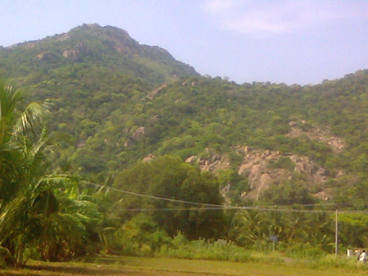 pangapalli forest